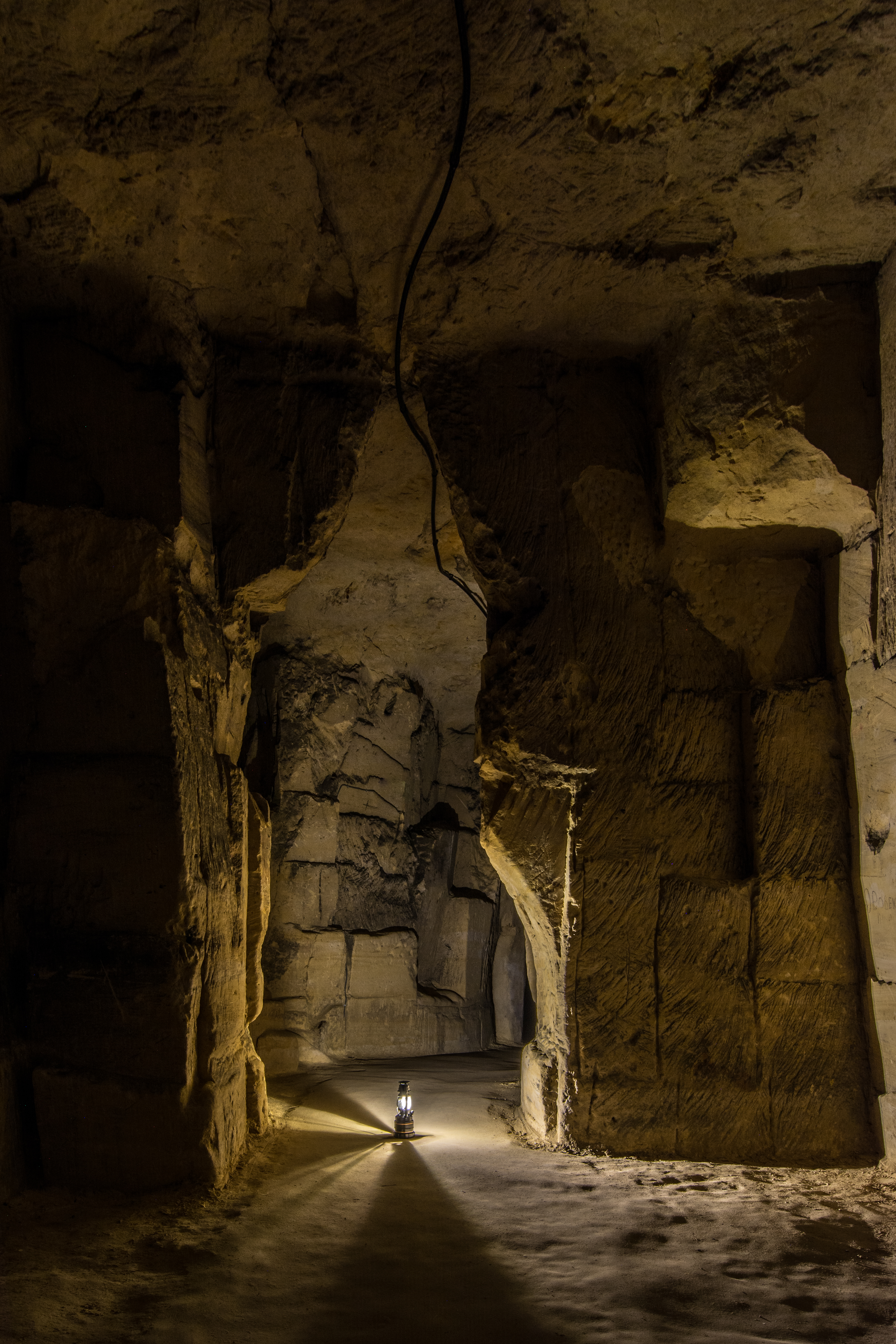 look through the Velvet Cave